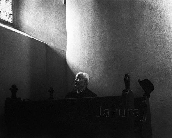 Jaroslav Kučera´s photography Personality rights warningAlthough this work is freely licensed or in the public domain, the person(s) shown may have rights that legally restrict certain re-uses unless those depicted consent to such uses. In these cases, a model release or other evidence of consent could protect you from infringement claims.